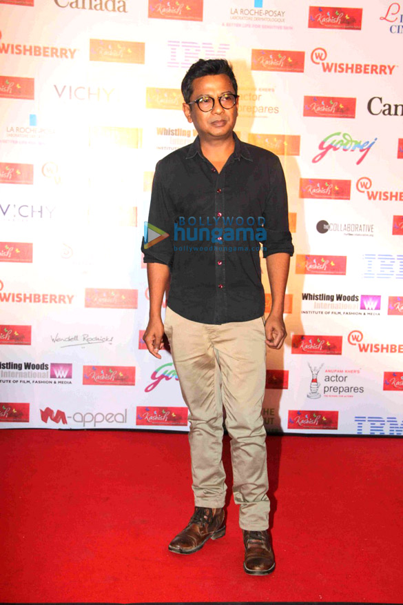 Onir at the KASHISH Queer Festival in 2016